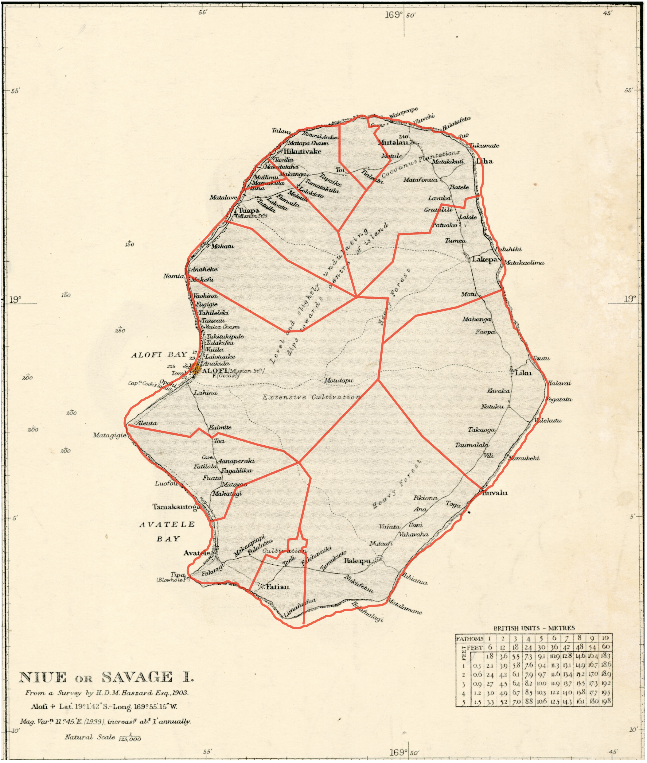 crop of Niue, from Nautical Chart: Plans of Islands in the South Pacific